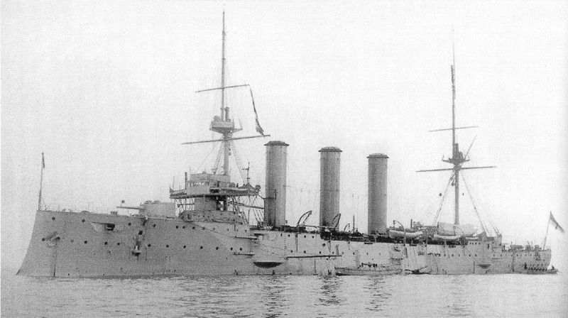 HMS Monmouth.